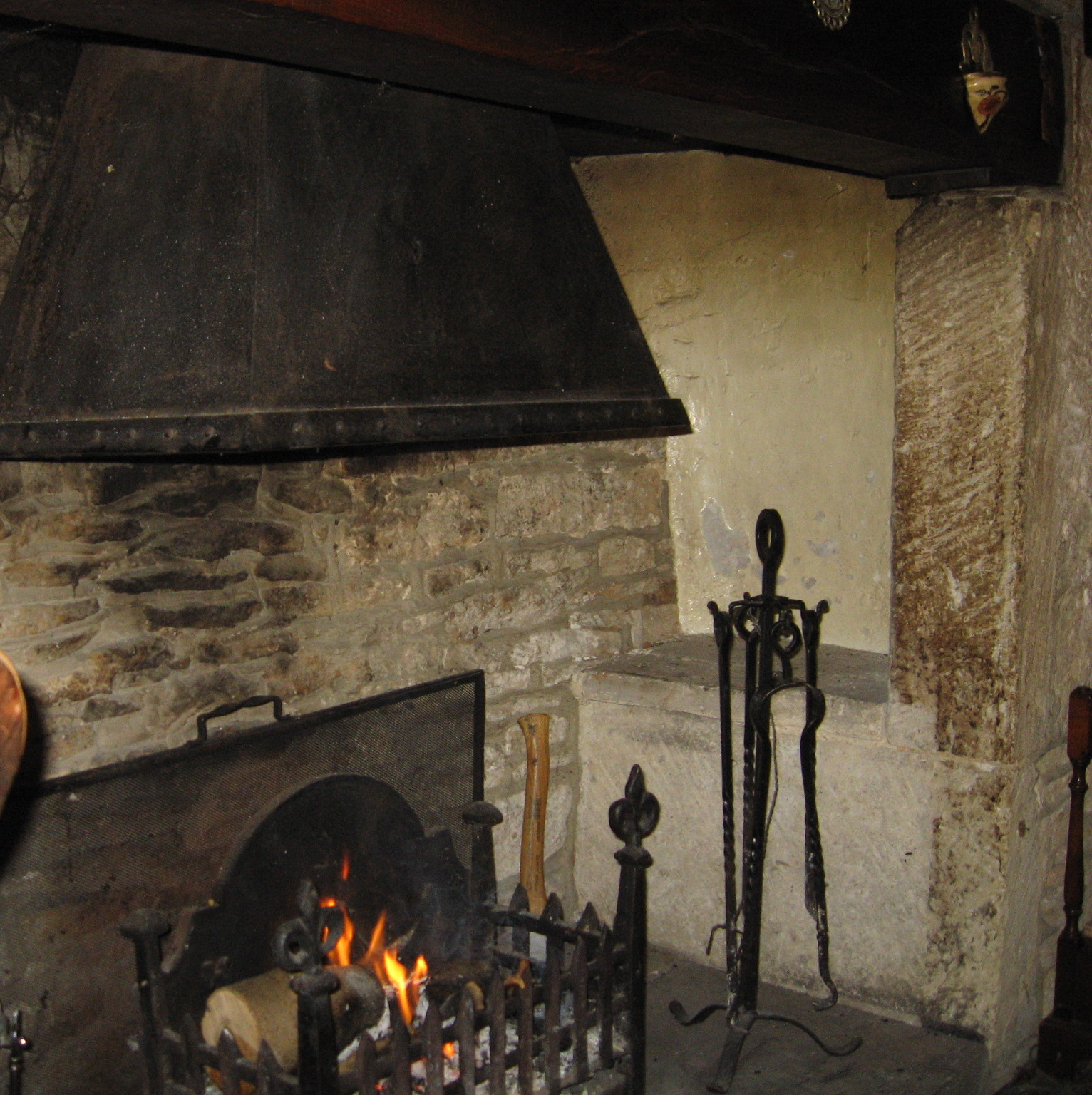 17th century English ingle-nook fireplace